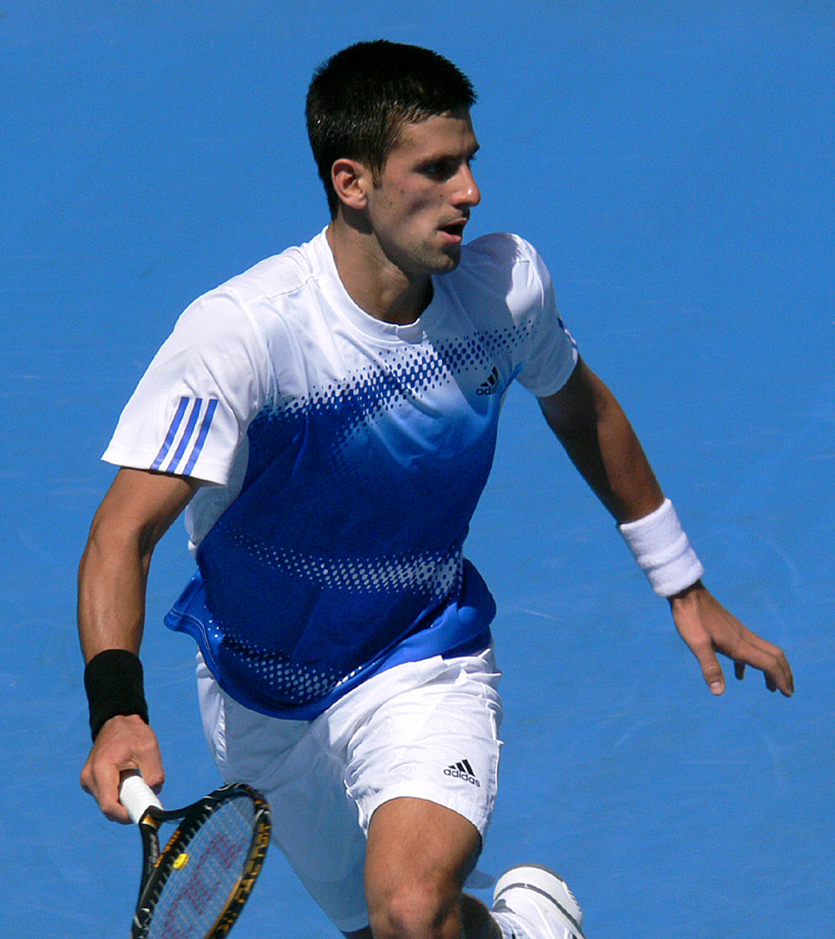 Djokovic at his 2008 Australian Open quarterfinal.